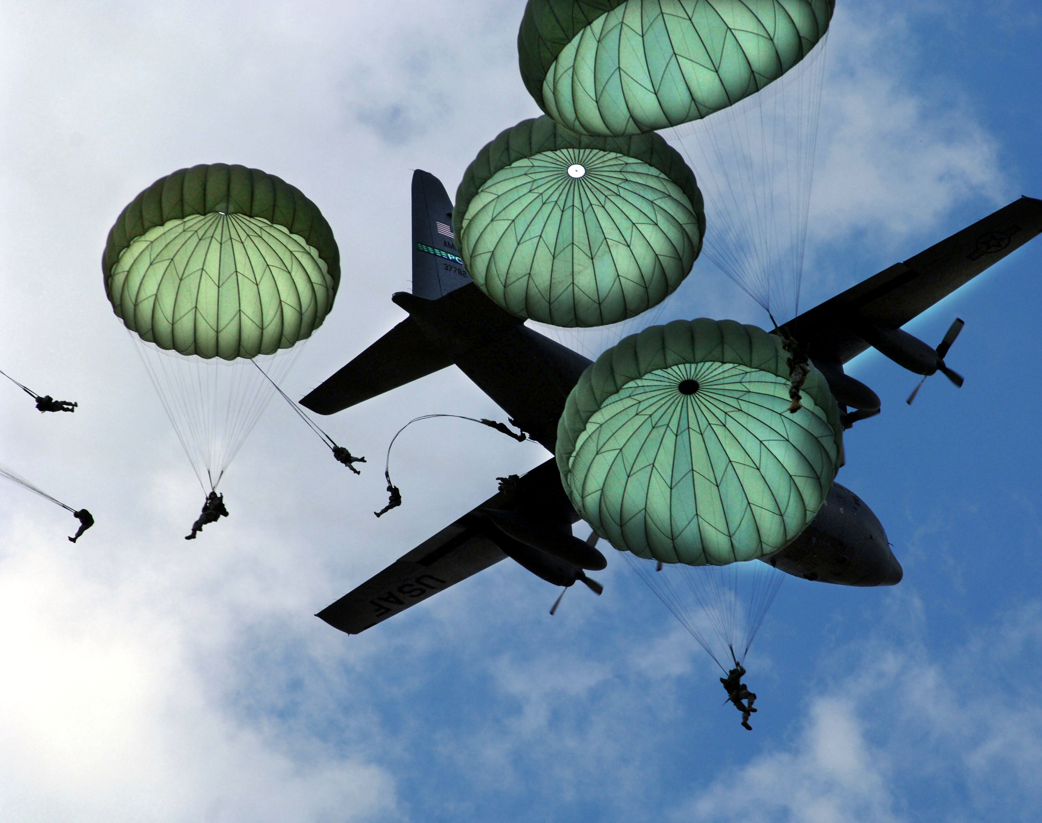 The Army 82nd Airborne Division, from Fort Bragg, N.C., performs a mass jump with 120 members during the 56th annual Department of Defense 2006 Joint Service Open House (JSOH) hosted at Andrews Air Force Base, Maryland.